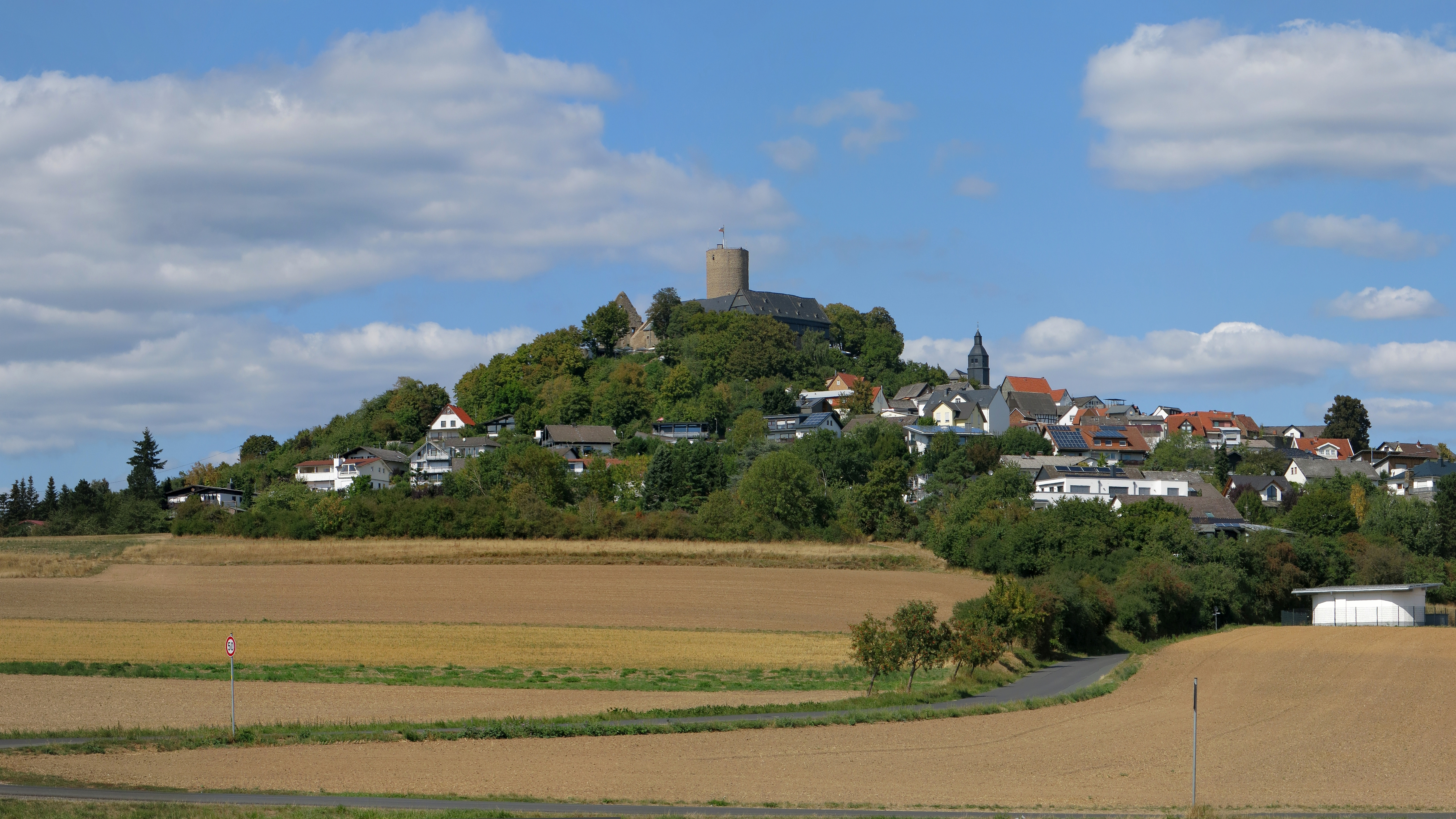 Gleiberg castle near Gießen in Hesse, seen from south